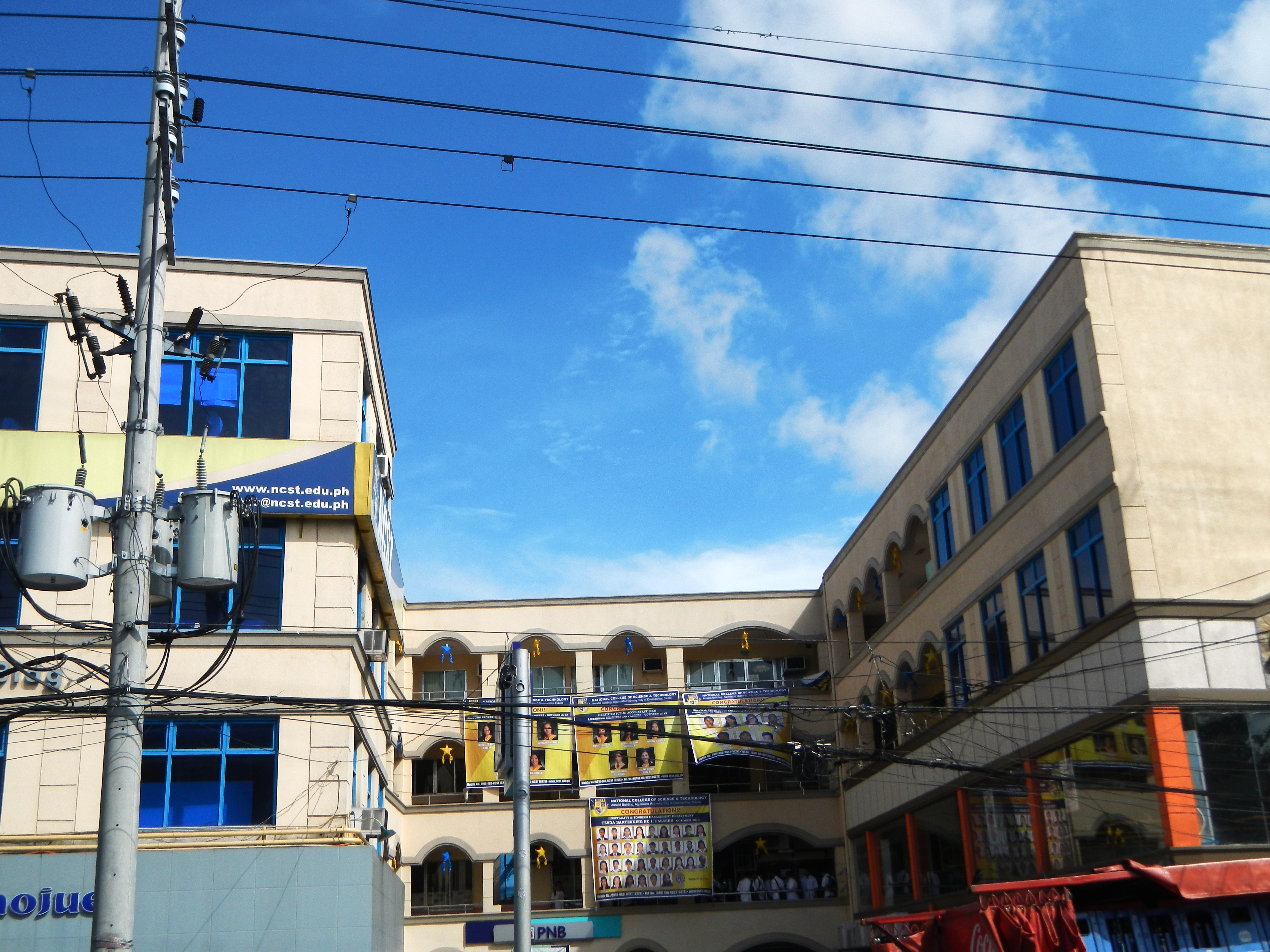 Upload Wizard photos of - Nasugbu, Batangas[1] - Aguinaldo Highway[2] passing a) Imus, Cavite[3] - Robinsons Place Imus, Shopwise, Savemore Supermarket, The District Ayala Mall - Metro Department Store Supermarket Asian Institute of Computer Studies WalterMart to Olivarez Mall in b) Tagaytay City, Cavite, Puregold Supermarket of Tagaytay, Ninoy Aquino statue in the Circle of Tagaytay Ridge, Days Hotel, to c) Barangay Nyugan, Laurel, Batangas, towards the Welcome Arch of d) Nasugbu, Batangas[4] - Batulao Village the scenery along the National Highway towards the Town Proper of Nasugbu, Batangas.